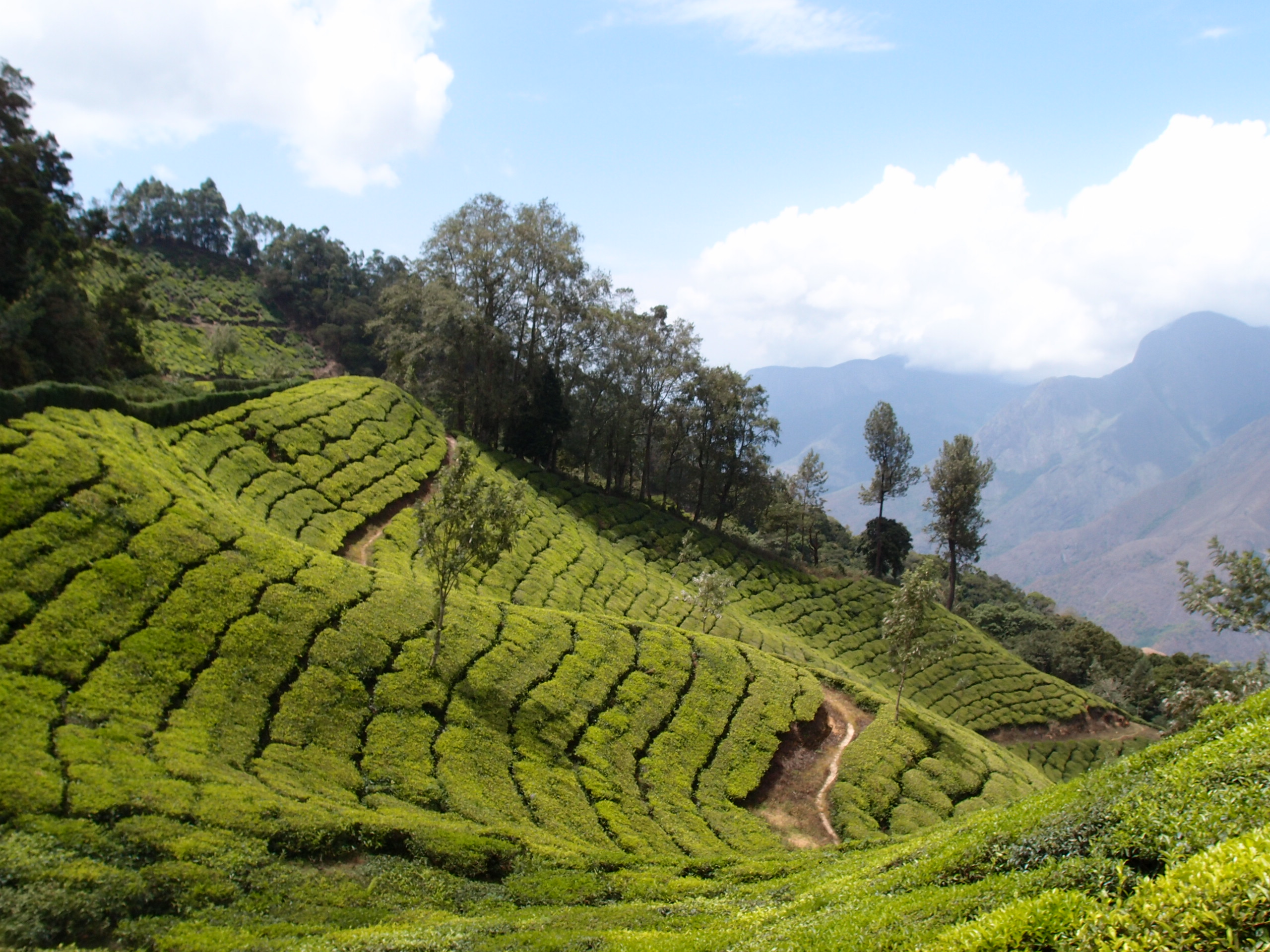 Tea plantations outside Munnar, Kerala state, India